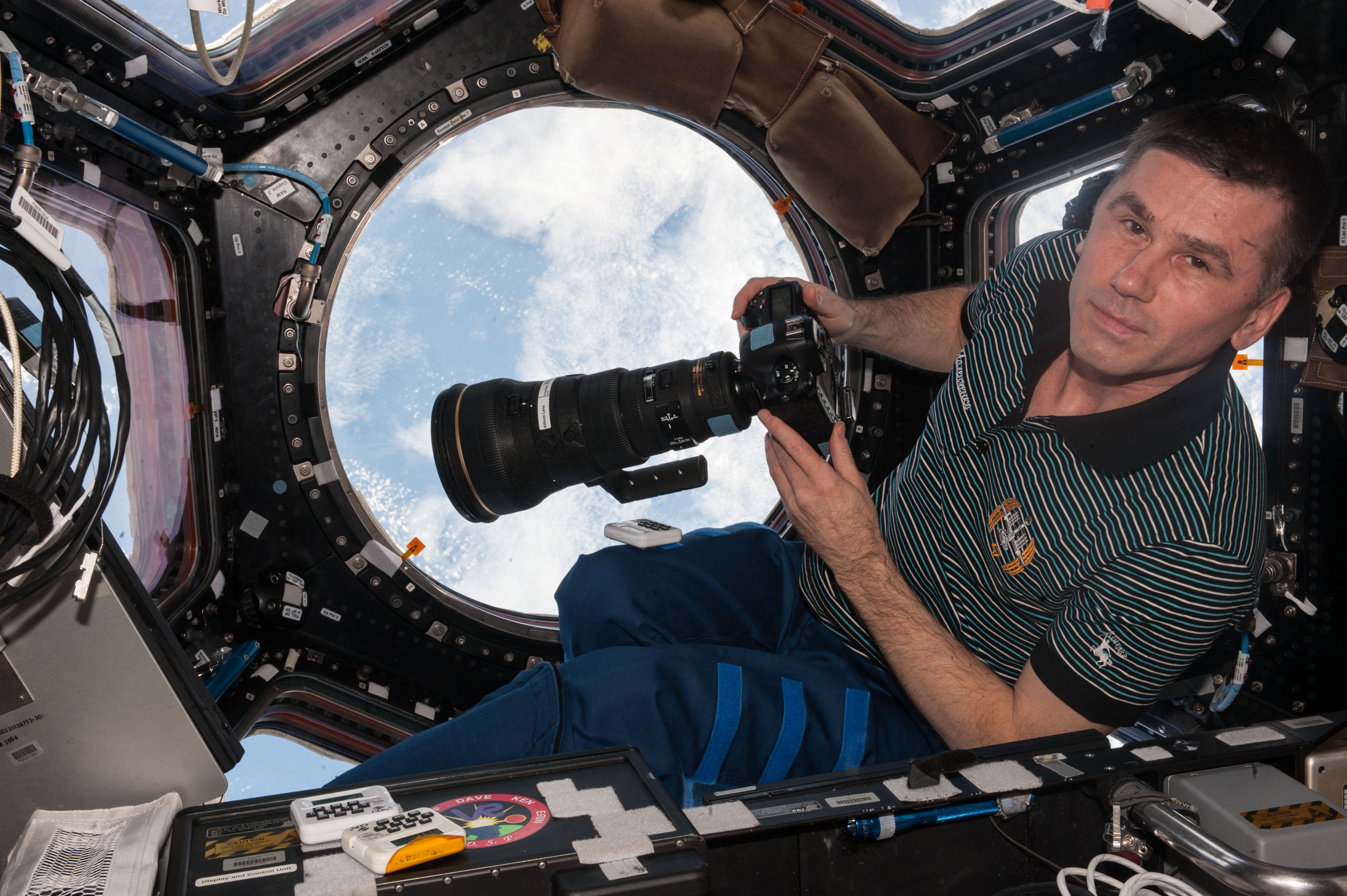 Expedition 47 flight engineer Yuri Malenchenko from Roscosmos is photographed in the International Space Station's Cupola module preparing to take Earth pictures using a 400 mm lens. The Cupola's 360 degree viewing platform provides optimal views of the Earth below and also contains the control mechanisms for the station's Canadarm2 robotic arm.